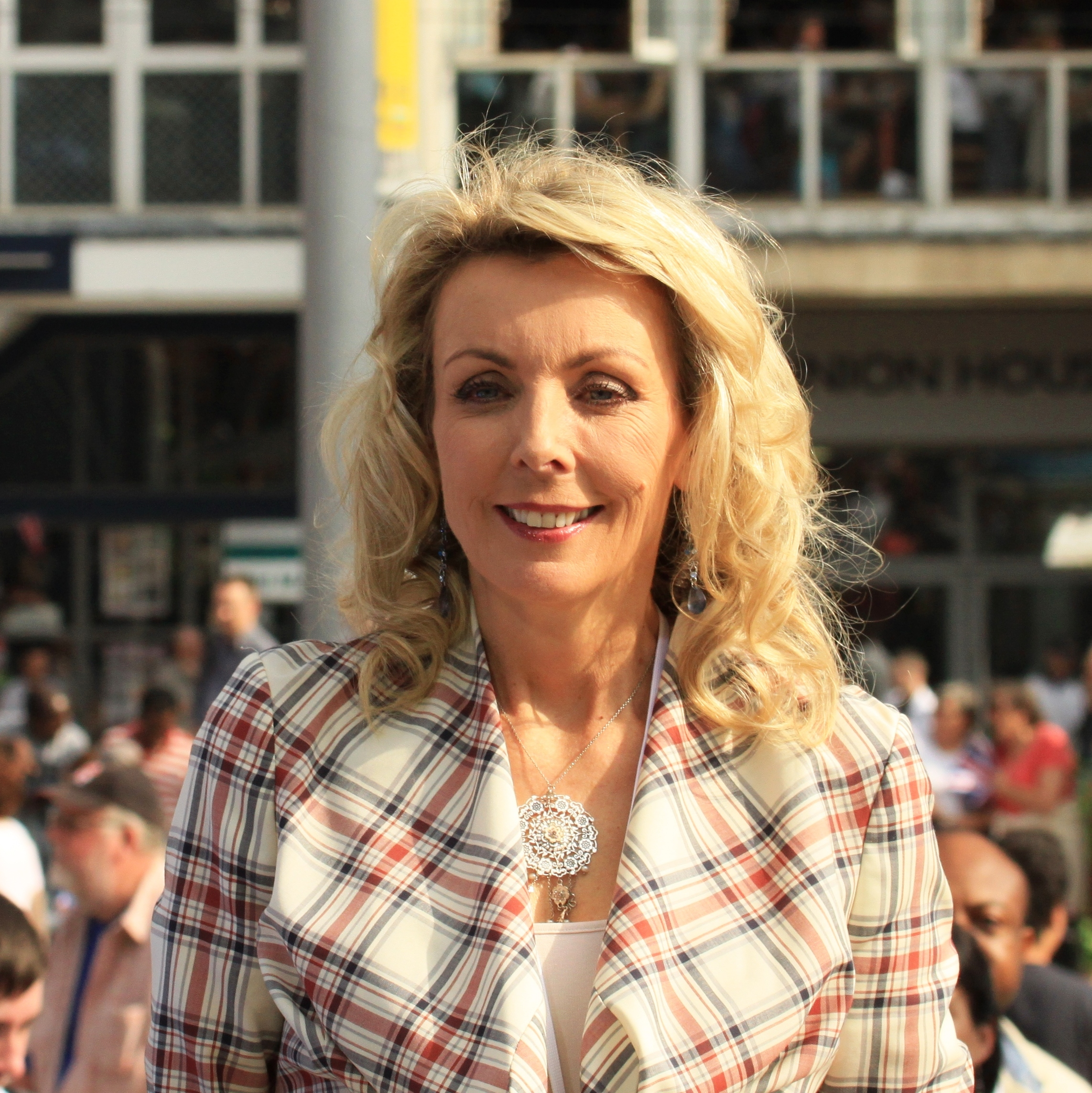 Dominic Heale and Anne Davies BBC local TV presenters for East Midlands Today.